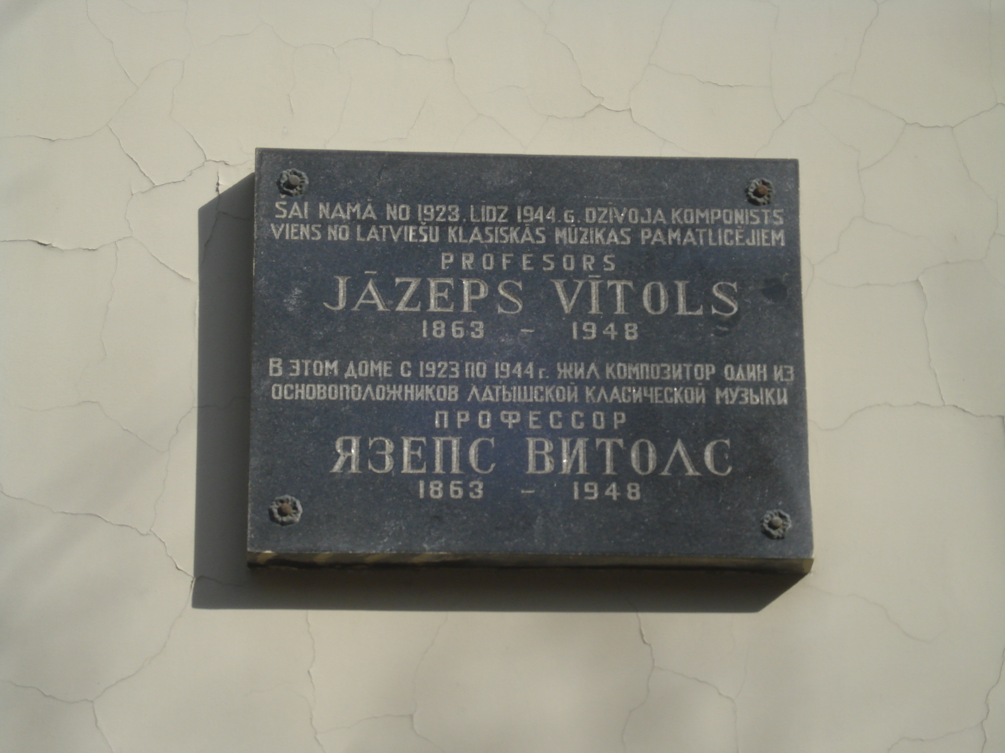 Plaque in memory of Jāzeps Vītols (1863–1948), the Latvian composer, in Riga, Ģertrūdes street 3